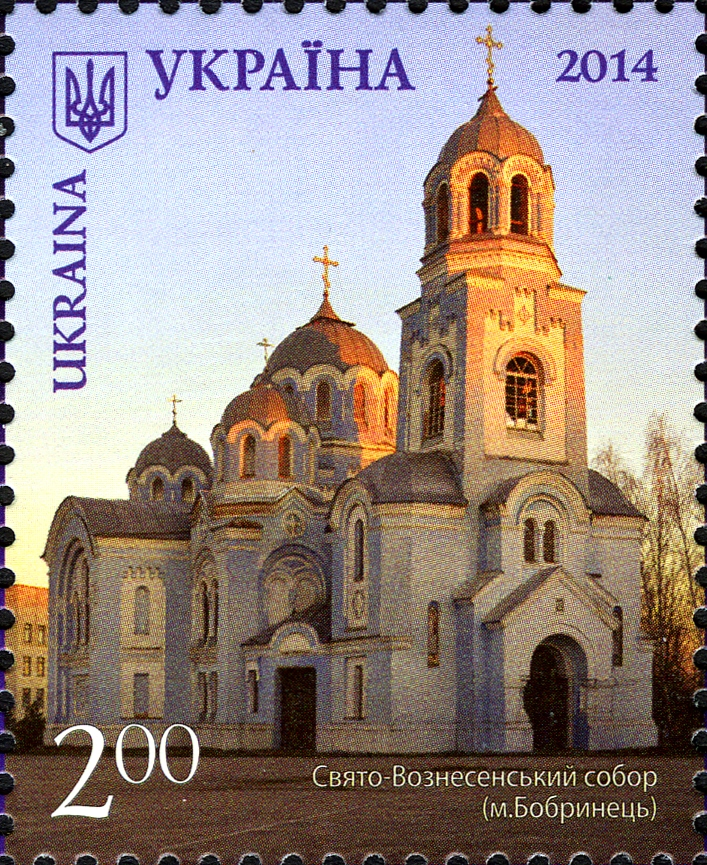 Stamps of Ukraine, 2014